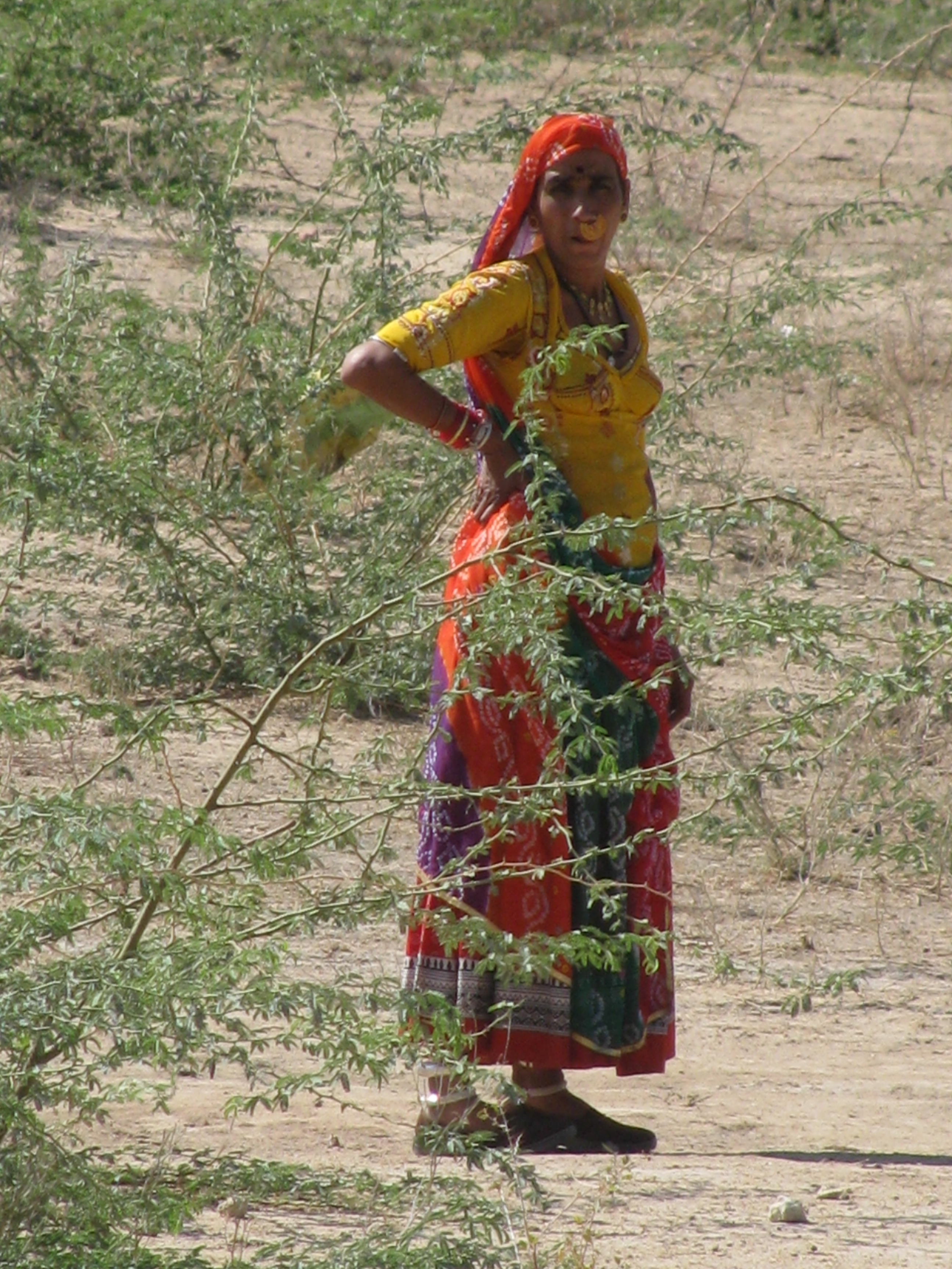 Traditionally dressed Bishnoi Woman